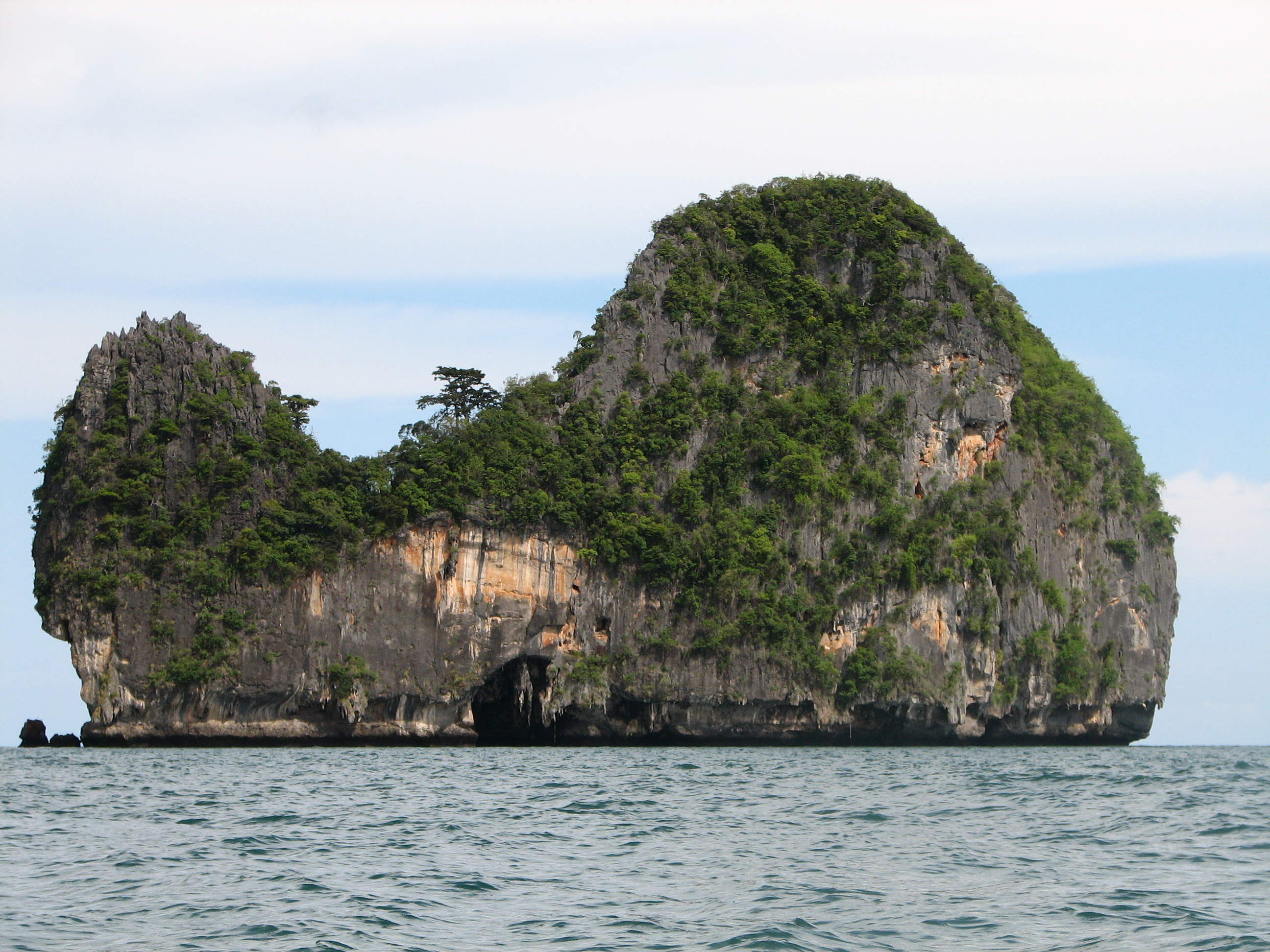 Typical limestone island.